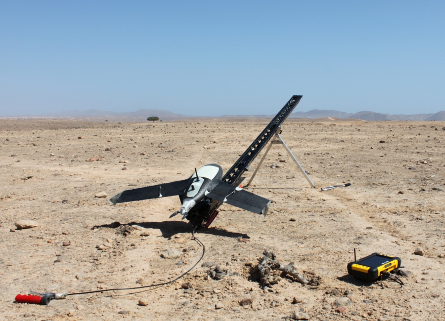 Gatewing X100 UAS for mapping and surveying purposes